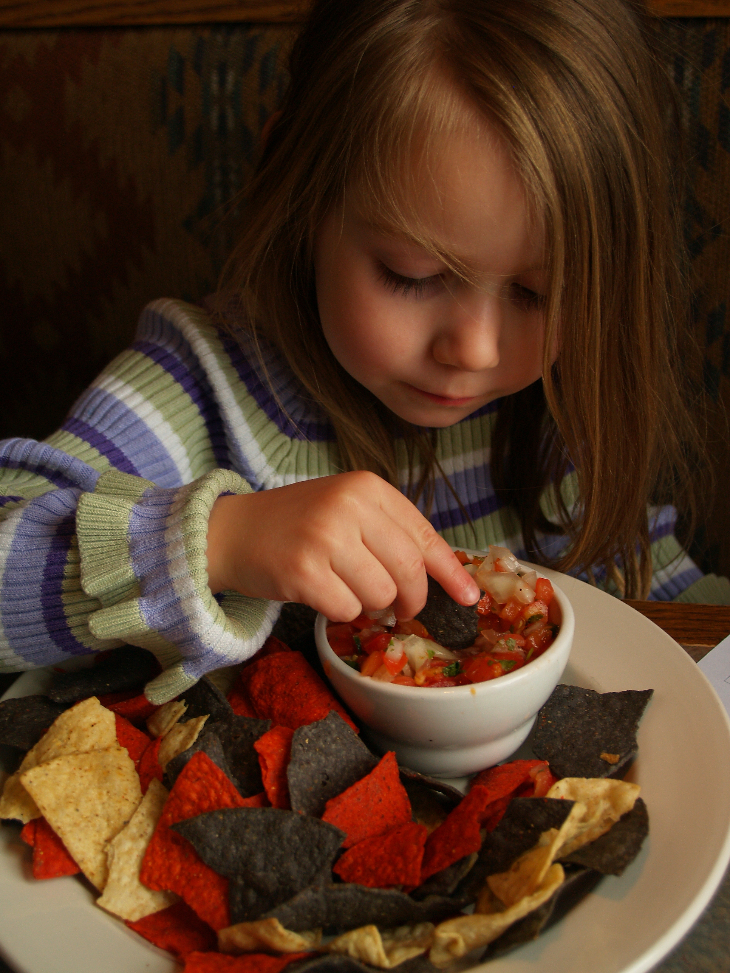 A young girl enjoys pico de gallo and American colored (red, white and blue) tortilla chips for the first time (technically) in Breckenridge, Colorado.